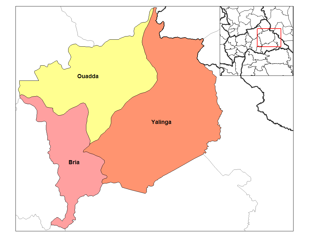 Map of the sub-prefectures of Haute-Kotto prefecture of the Central African Republic. Created by Rarelibra 19:46, 31 August 2006 (UTC) for public domain use, using MapInfo Professional v8.5 and various mapping resources.